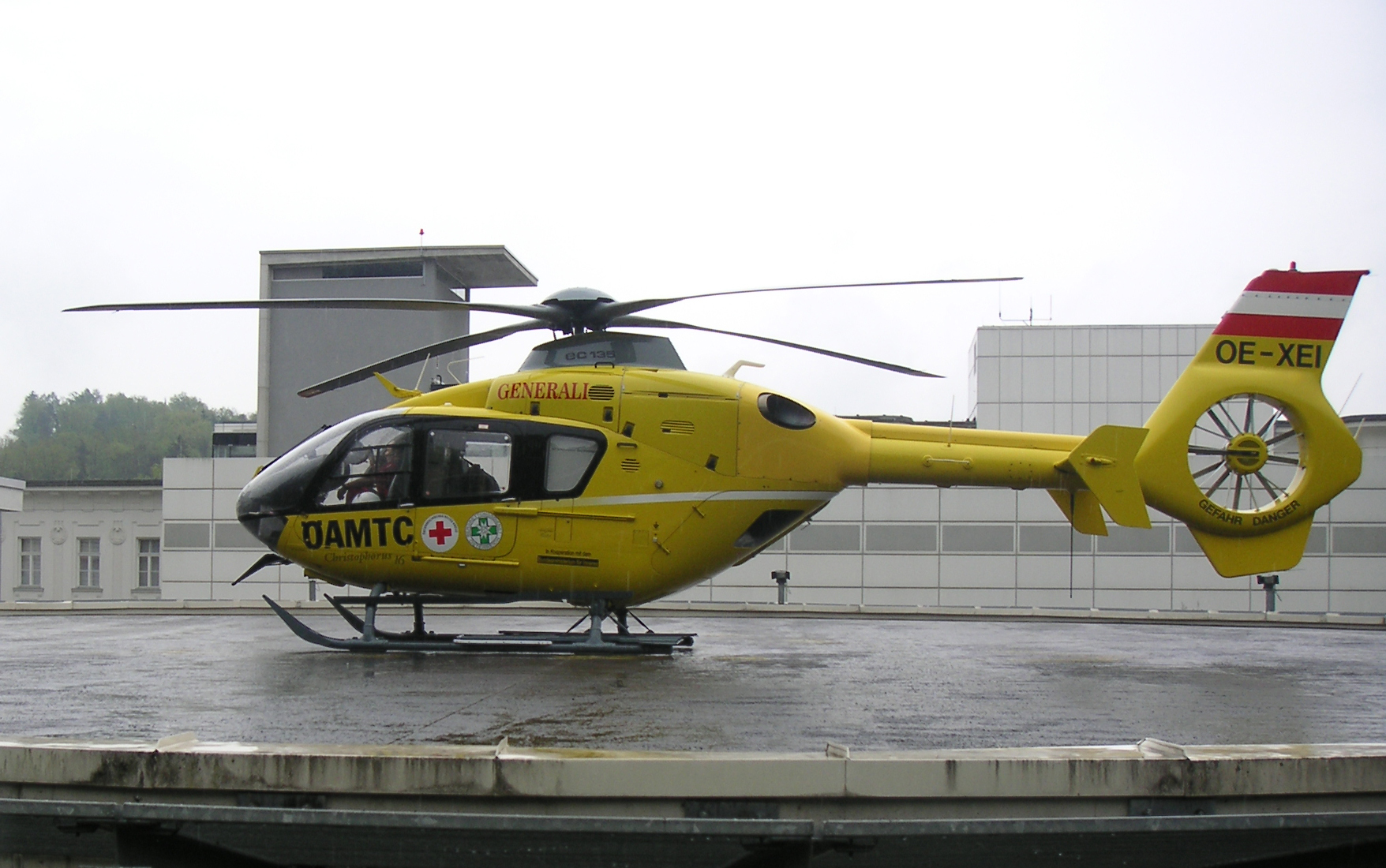 OEAMTC air ambulance "Christophorus 16" at the helipad at the University Hospital Graz, Department of Pediatric Surgery. Port side view.